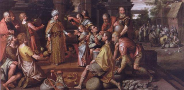 Joseph distributing the Harvest to the Egyptians and Benjamin being presented to his brother; the brothers before Joseph: Judah pleads for Benjamin and offers to be retained as a slave in his stead; the cup is found in Benjamin's sack